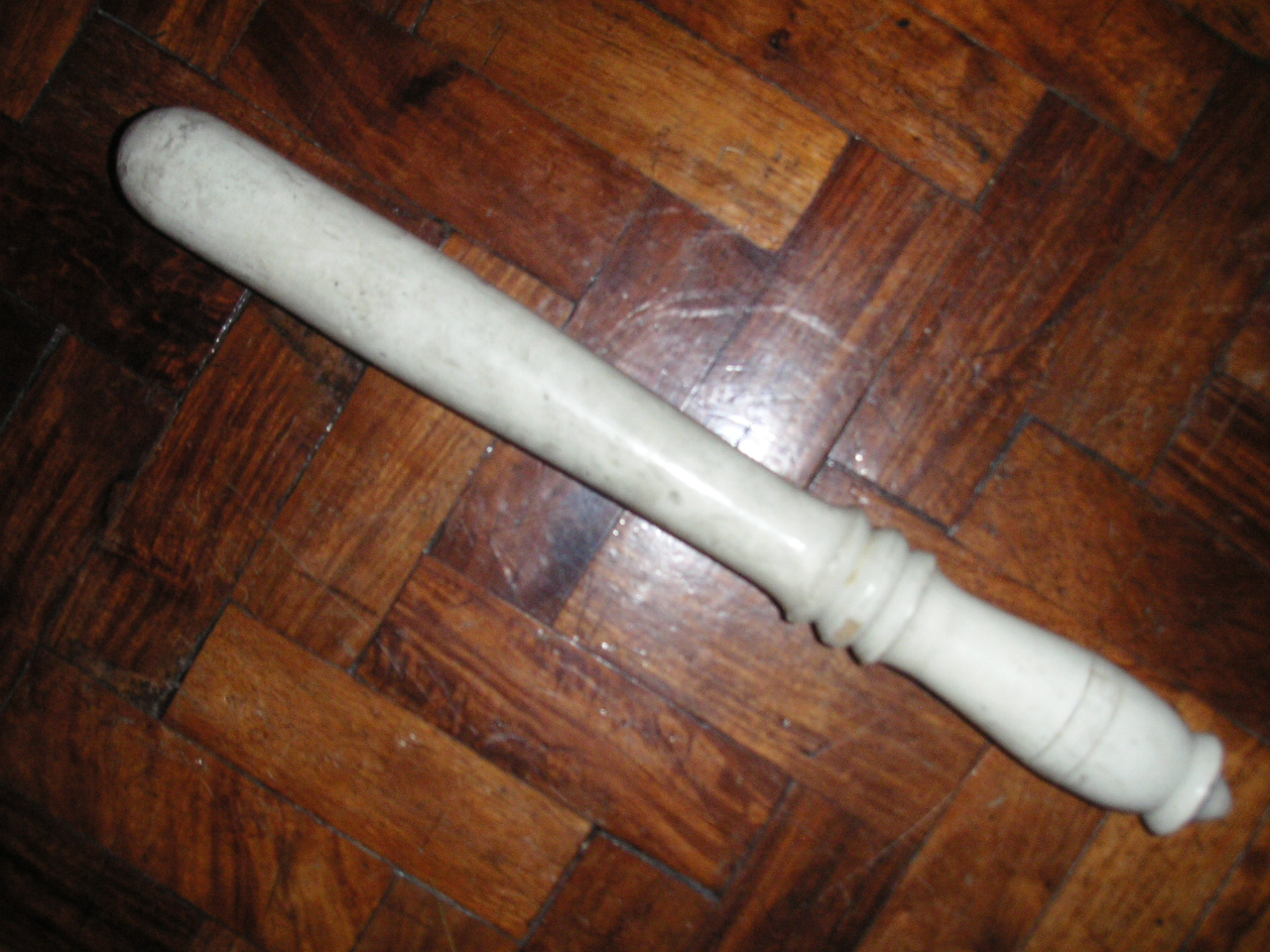 Author's own picture. Wooden baton painted white.